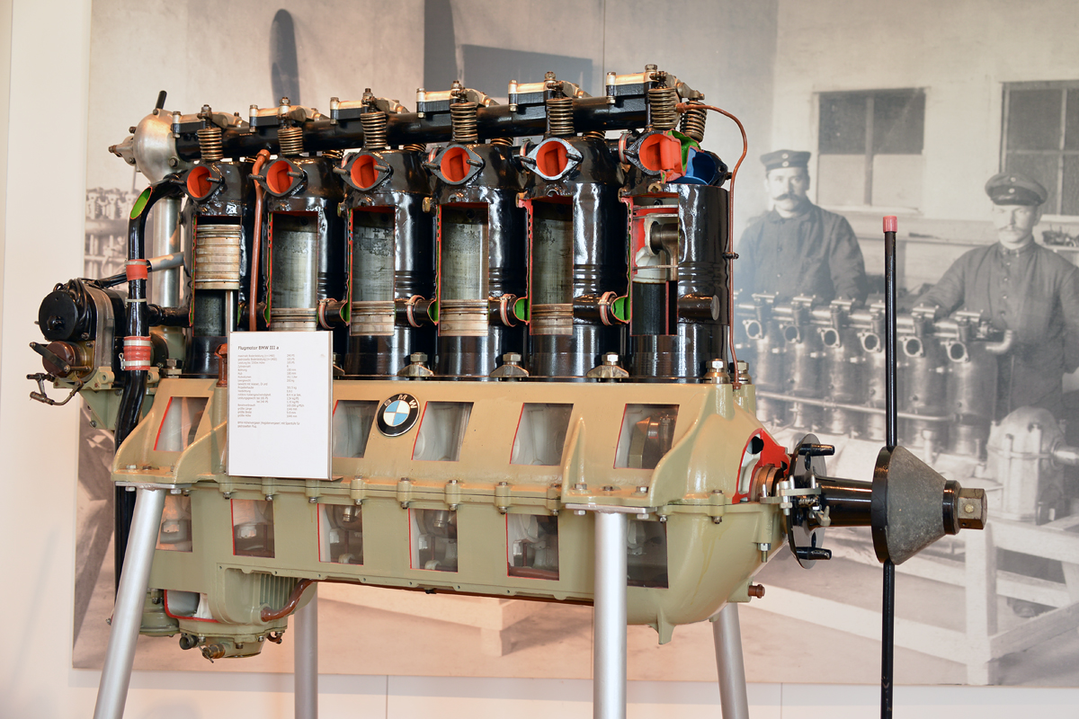 BMW IIIa